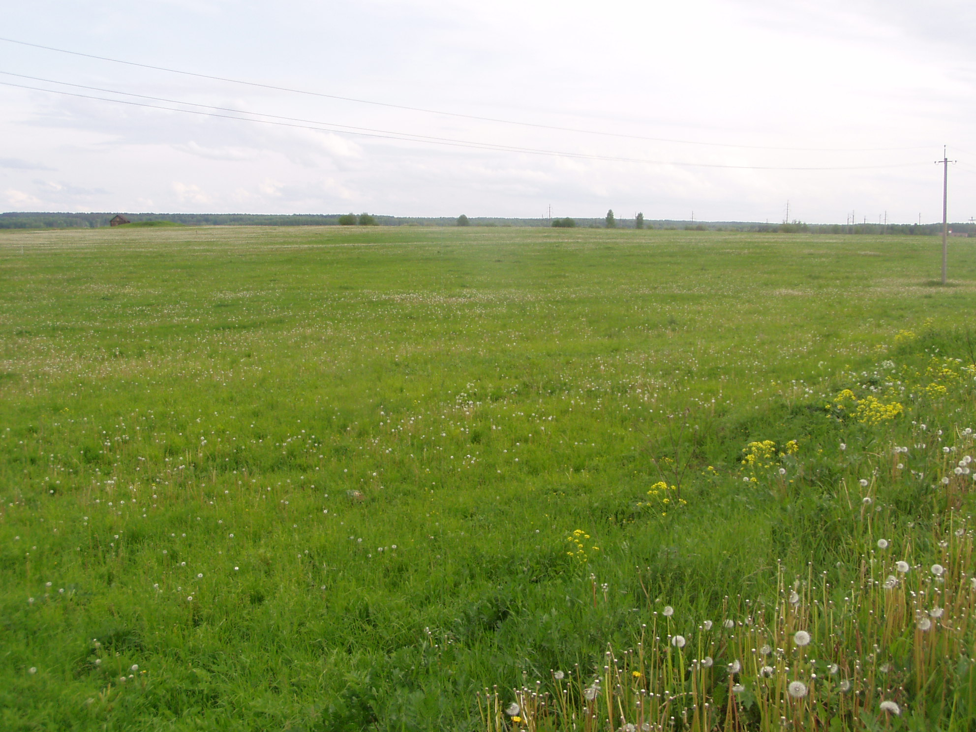 Solomin field in Novovyatsk part of Kirov, Russia